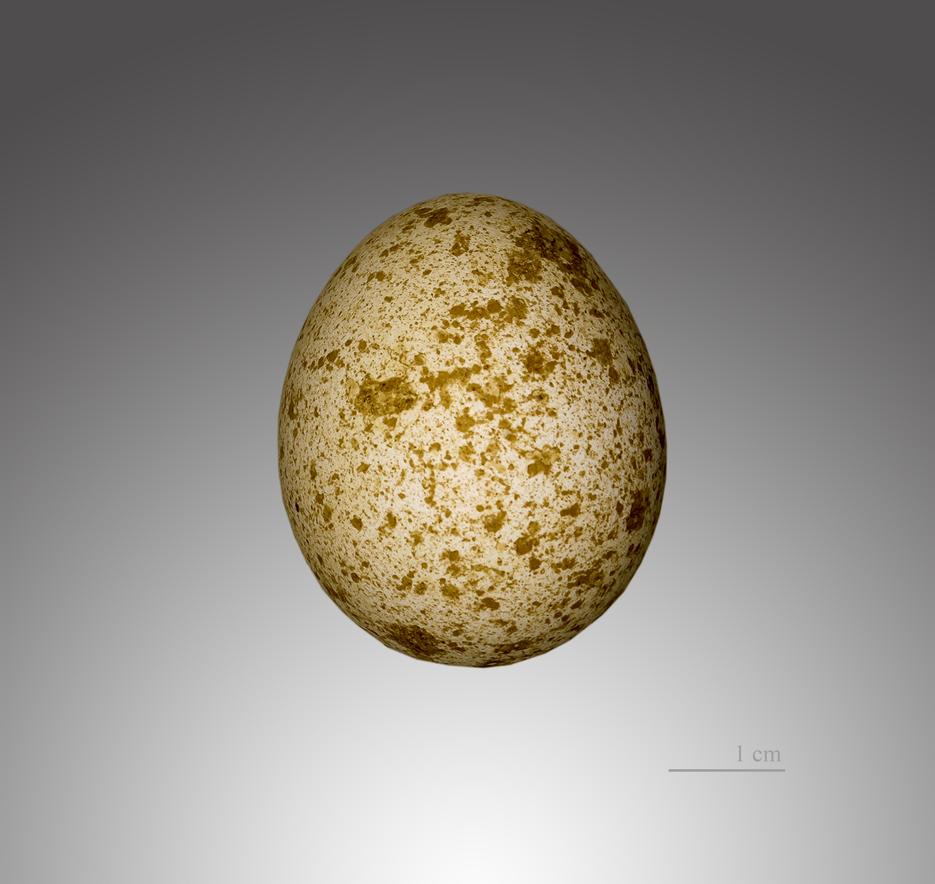 Egg of Common Kestrel. Collection of René de Naurois /Jacques Perrin de Brichambaut. Locality: Brava island Cape Verde.